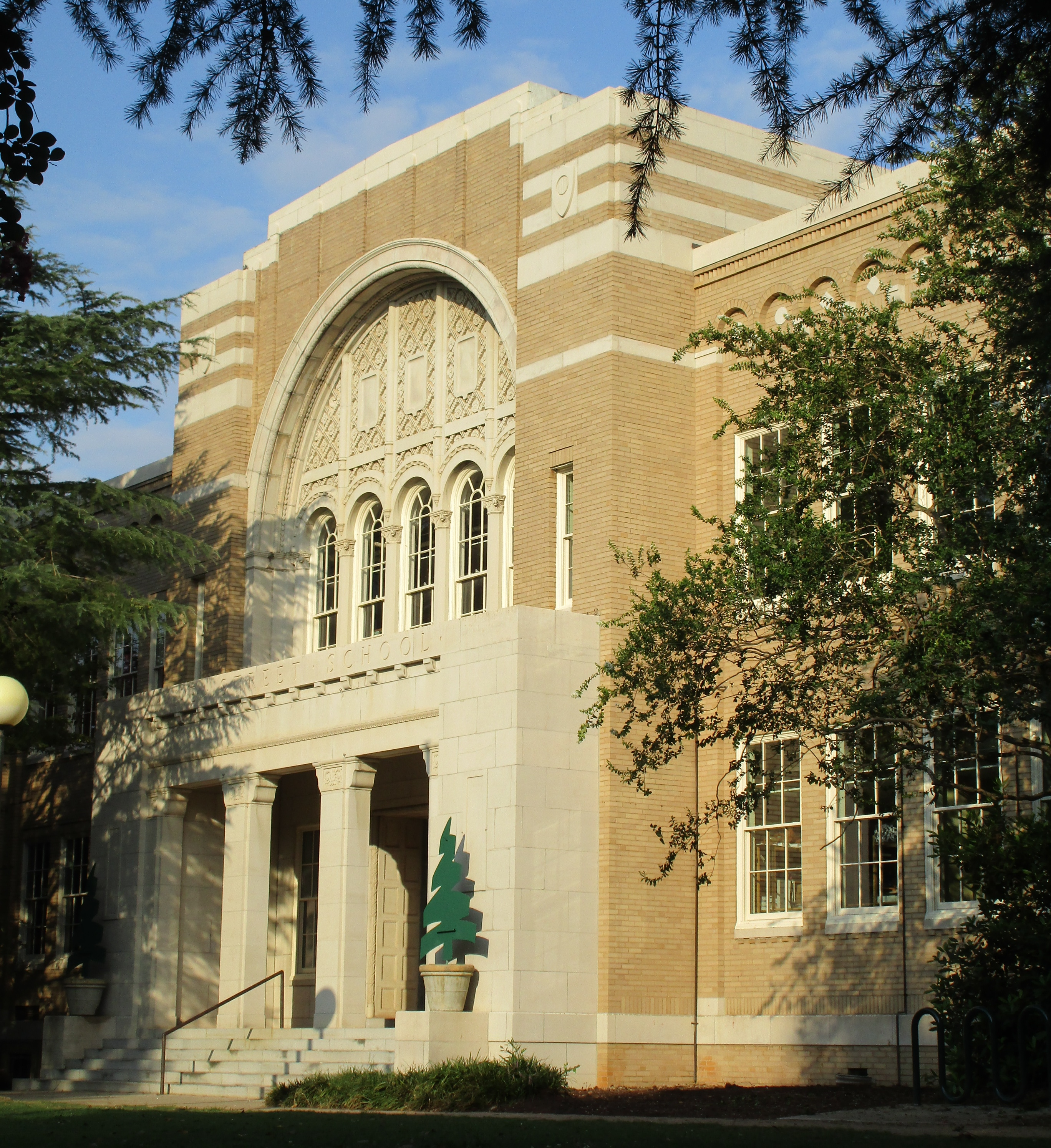 Pine Street Elementary School (Boyd Street entrance) after renovations in August 2017.